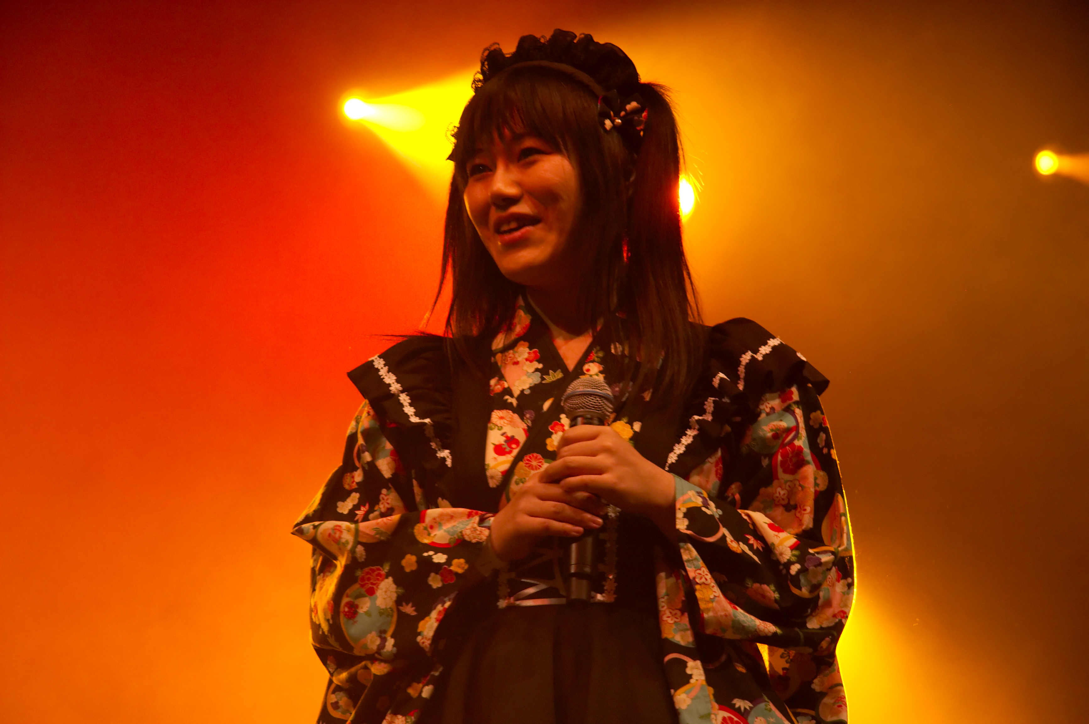 Mosaic.wav live at Japan Expo 2009 (Paris, France).